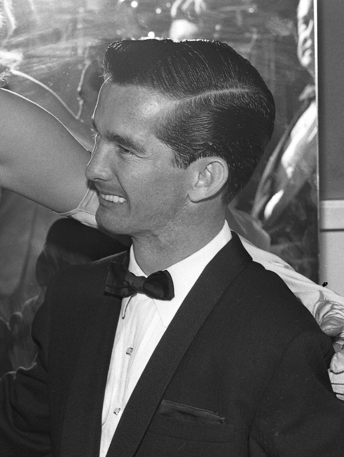 Bill Shoemaker in 1957